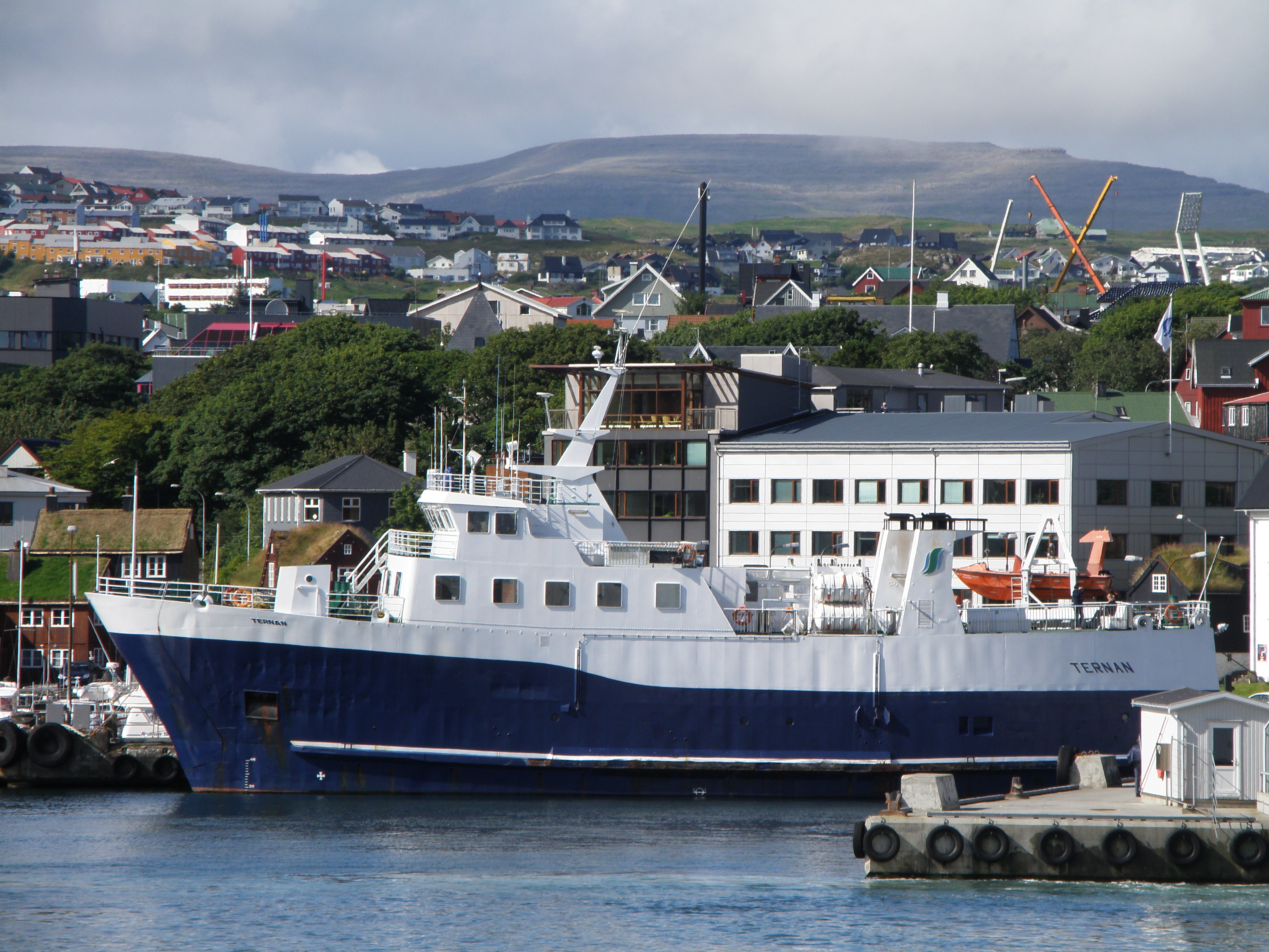 Ternan M/F is a Faroese ferry, run by the public transport company Strandfaraskip Landsins. Ternan sails daily between Tórshavn (Streymoy) and Nólsoy, earlier it was on route between Gamlarætt (Streymoy) and Sandoy and across the Vestmannasund, before the subsea tunnel between Streymoy and Vágar was made.